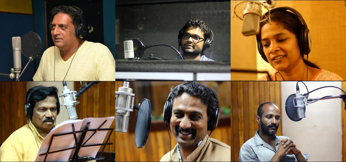 Celebrities reading for Keli Katheya Audio Book